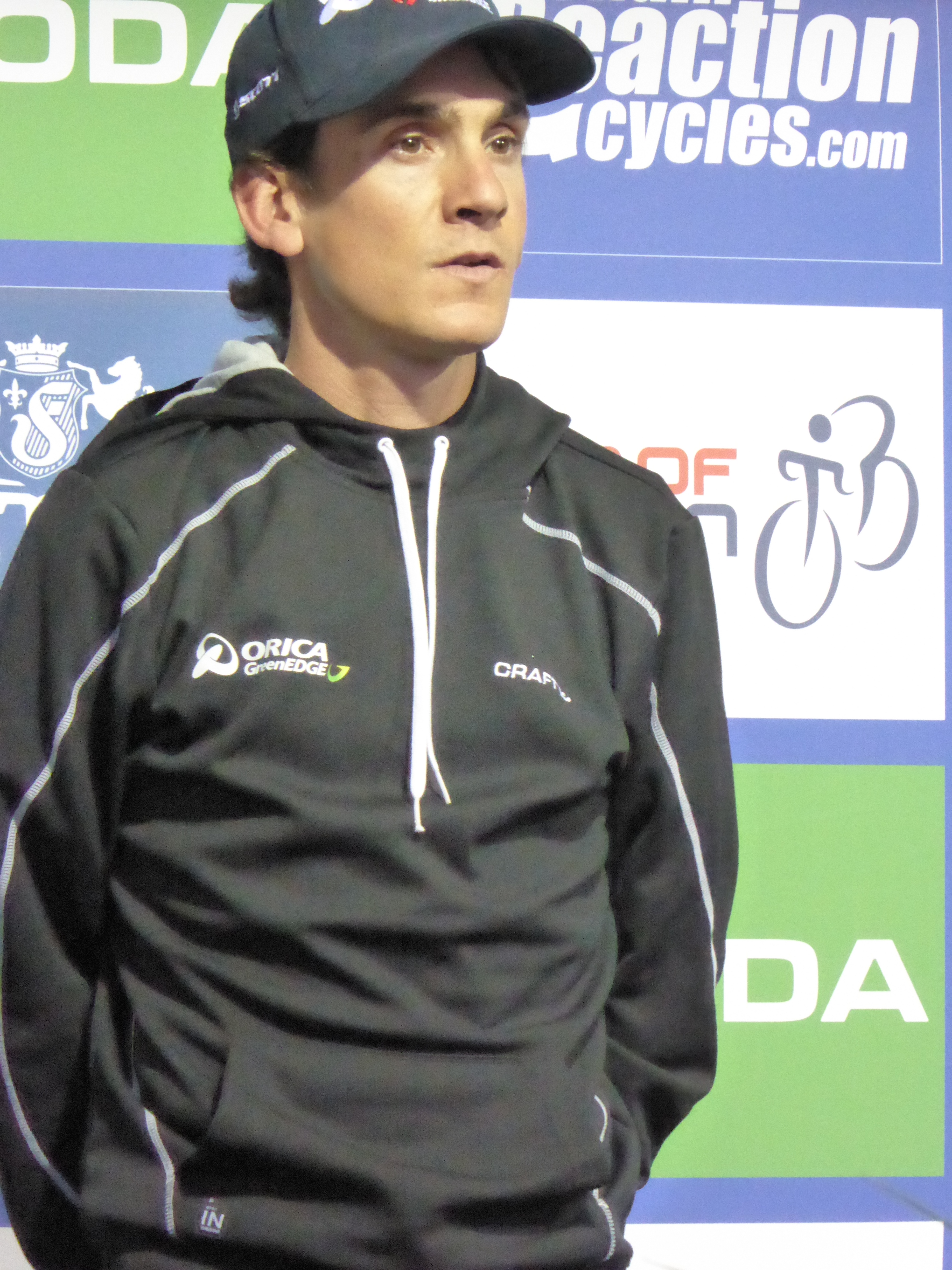 Amets Txurruka (Orica-BikeExchange), pictured at the 2016 Tour of Britain team presentation in Glasgow on 3 September 2016.